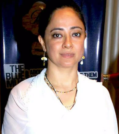 Sheeba Chaddha at 'The Blue Mug' play press meet